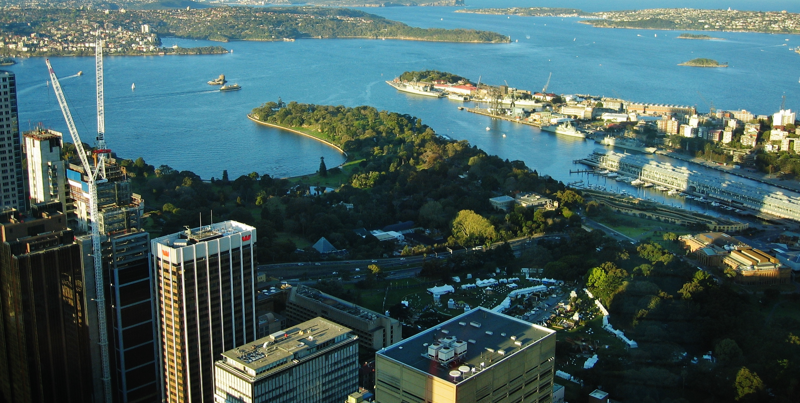 View from Sydney Tower Eye